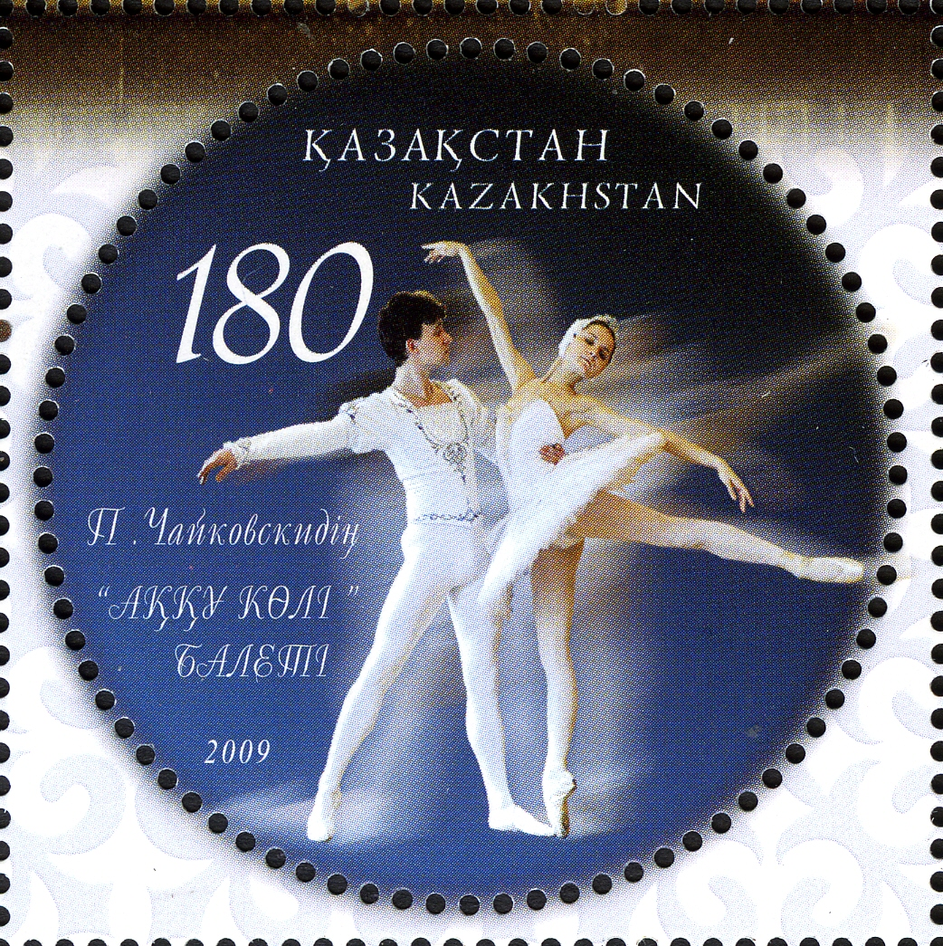 Stamps of Kazakhstan, 2009